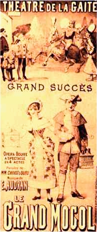 1884 poster for Edmond Audran's operetta Le grand mogul, Paris revival. Image: public domain.